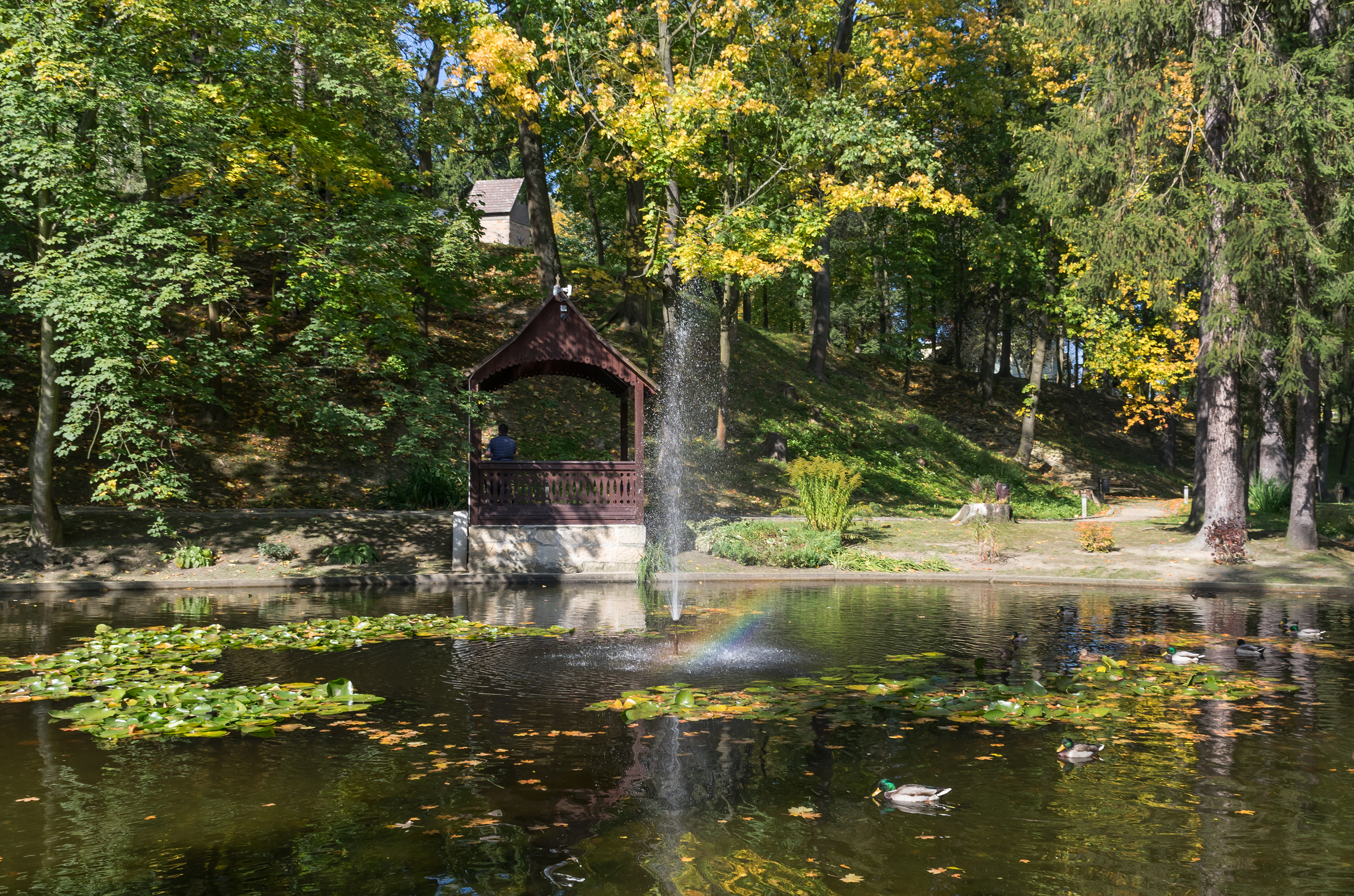 Spa Park in Długopole-Zdrój Wikidata has entry Q30046544 with data related to this item.